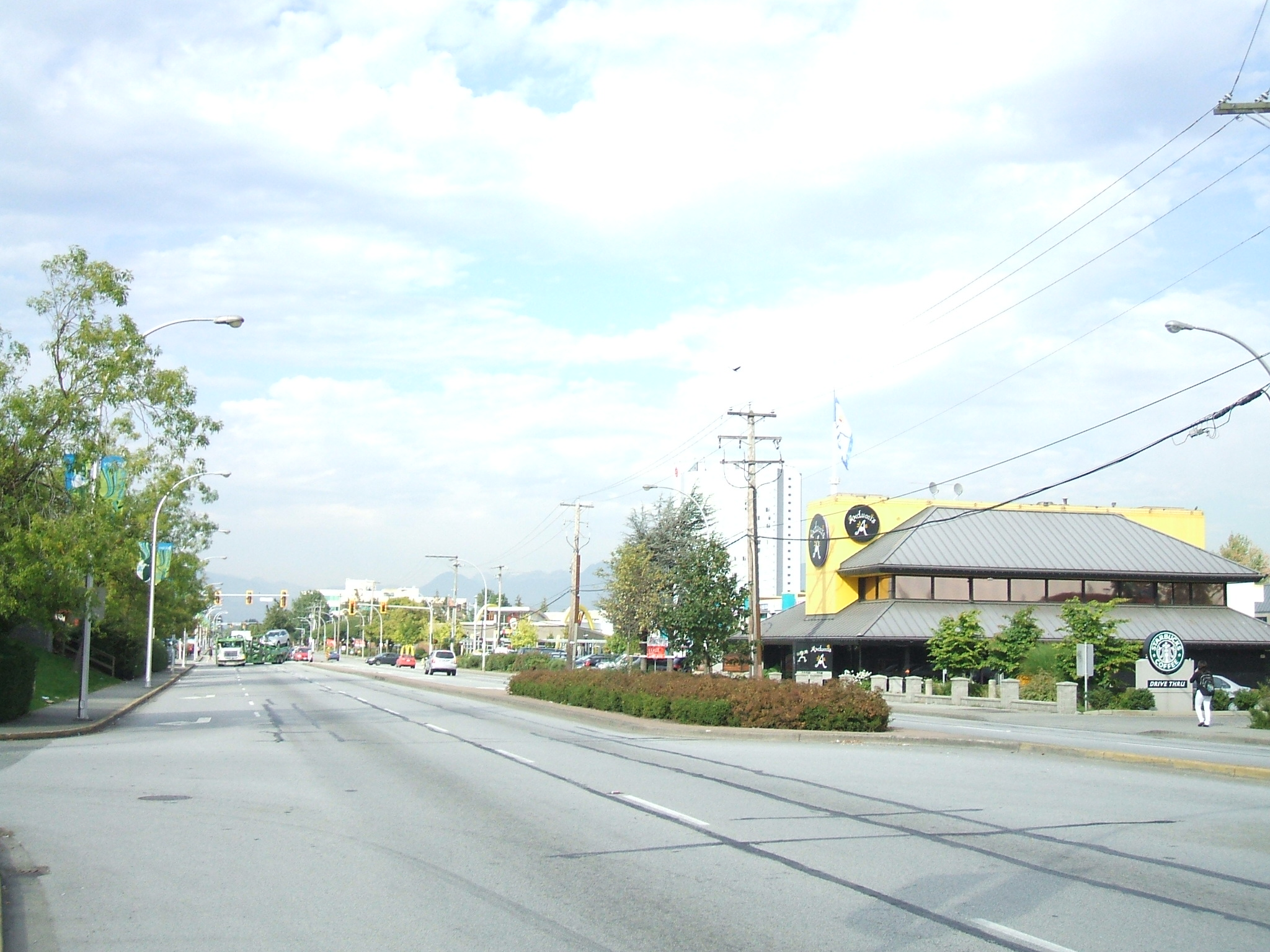 Across the street from the of Guildford Town Centre along 152 Street at 101 Avenue. 152 Street is a major collector road in Surrey and goes through the suburb of Guildford in Surrey, British Columbia, Canada. (Not to be confused with Guildford, Surrey, UK)